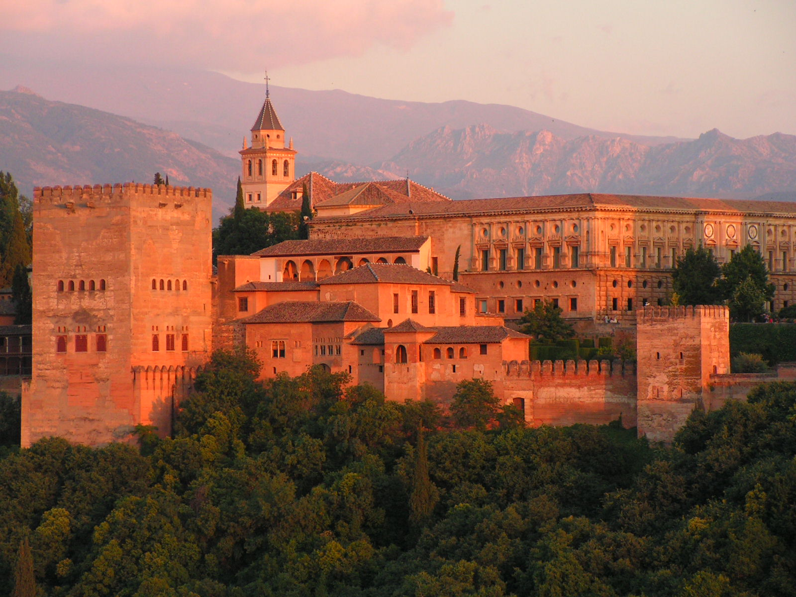 The sunset in Granada while looking to the Alhambra is one of the most spectacular things in Europe.